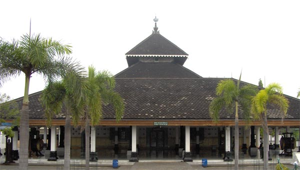 i took this picture on 2006.